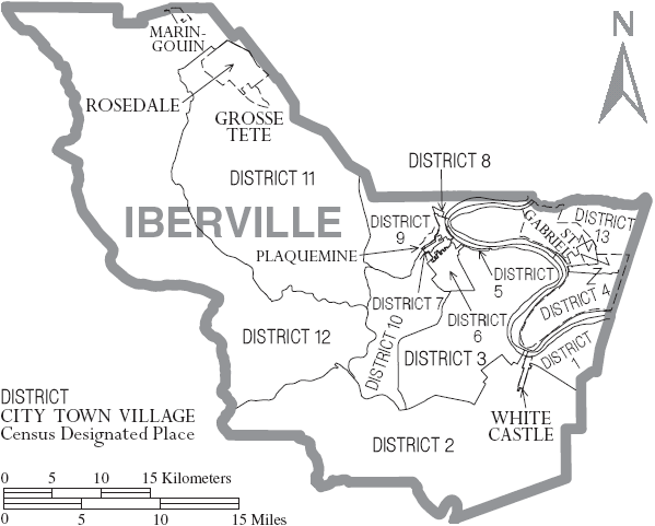 Map of Iberville Parish, Louisiana, United States with municipal and district boundaries